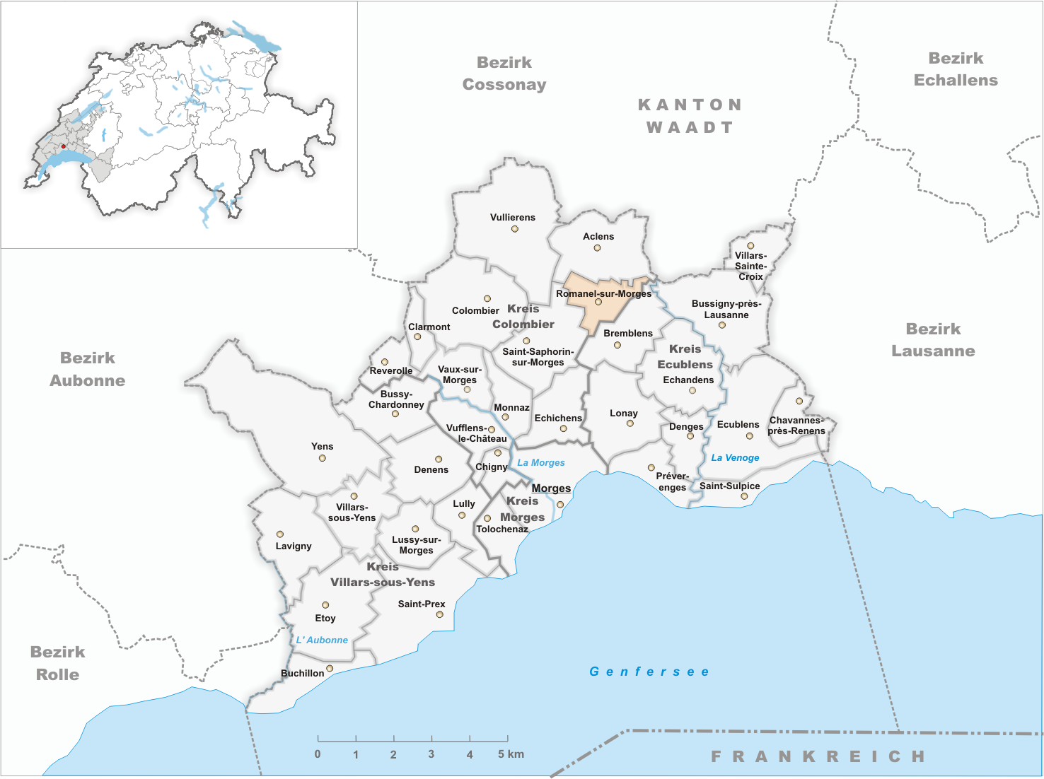 Municipality Romanel-sur-Morges